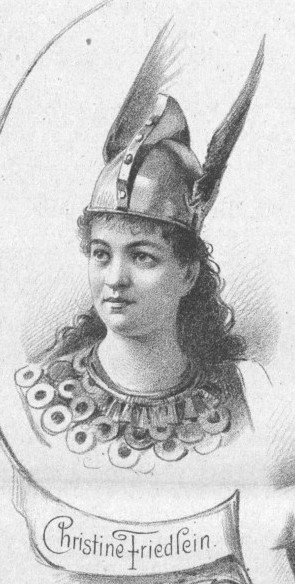 Portrait of Christine Friedlein (1862-1938), German singer.